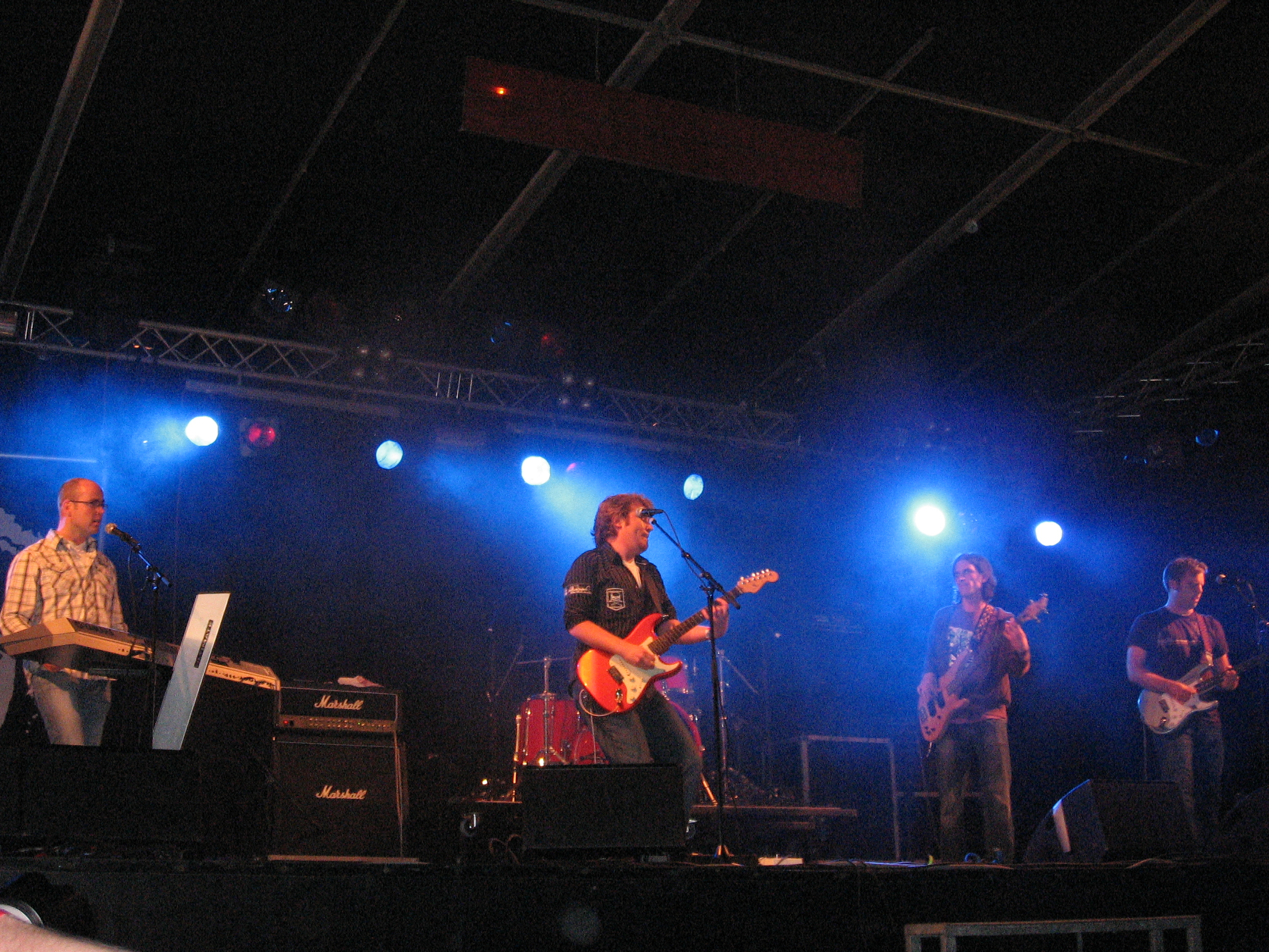 Stud Muffins - Westerpop 2008